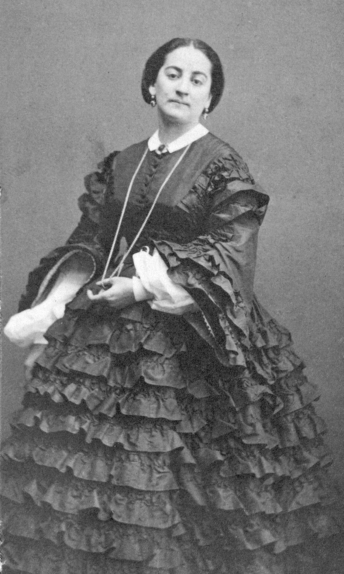 Photograph of Mademoiselle Monrose, French operatic soprano